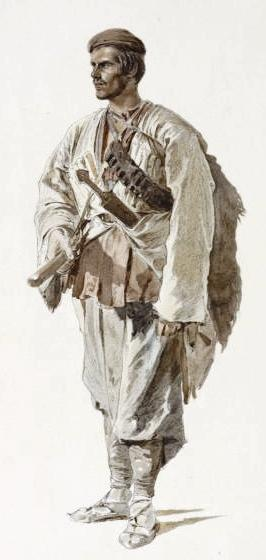 Militsioner tushin.